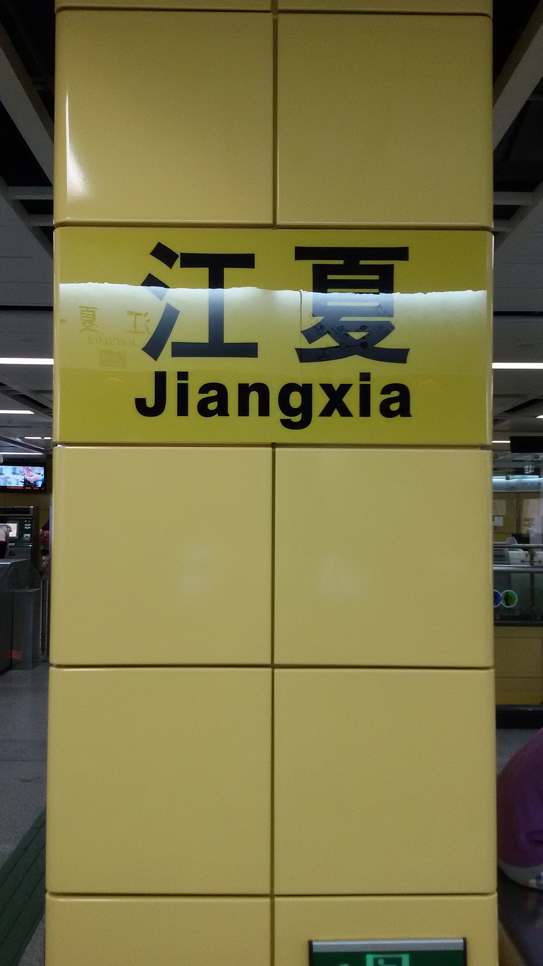 WORD on PILLAR for Jiangxia Station in Guangzhou Metro 粵語: 廣州地鐵，江夏站嘅柱上面啲字。